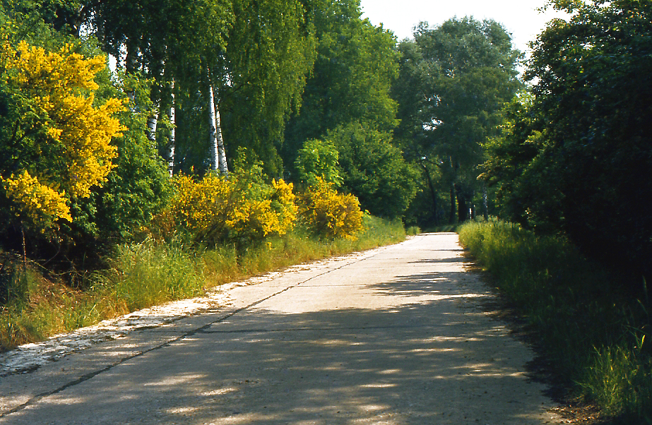 Road in the Finie near Wülfingen, part of the small town Elze, district Hildesheim, Lower Saxony, Germany.